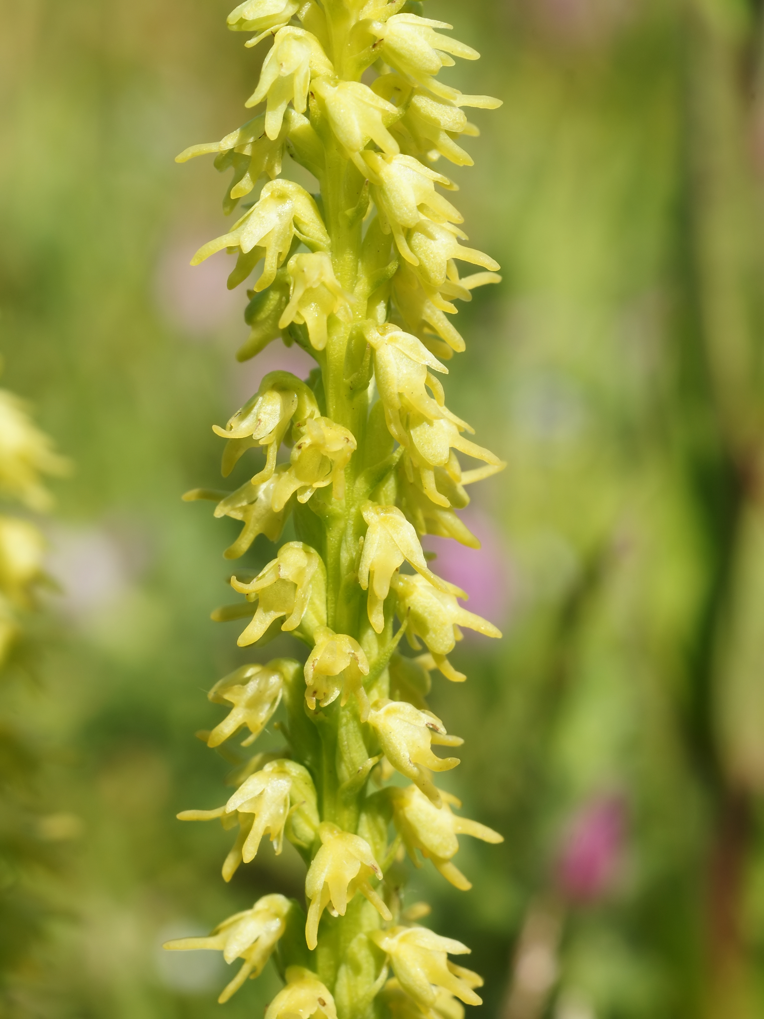 Musk Orchid.